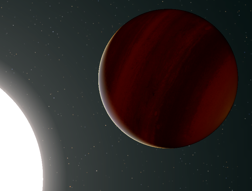 WASP-18 b, hot "Super-Jovian" planet.